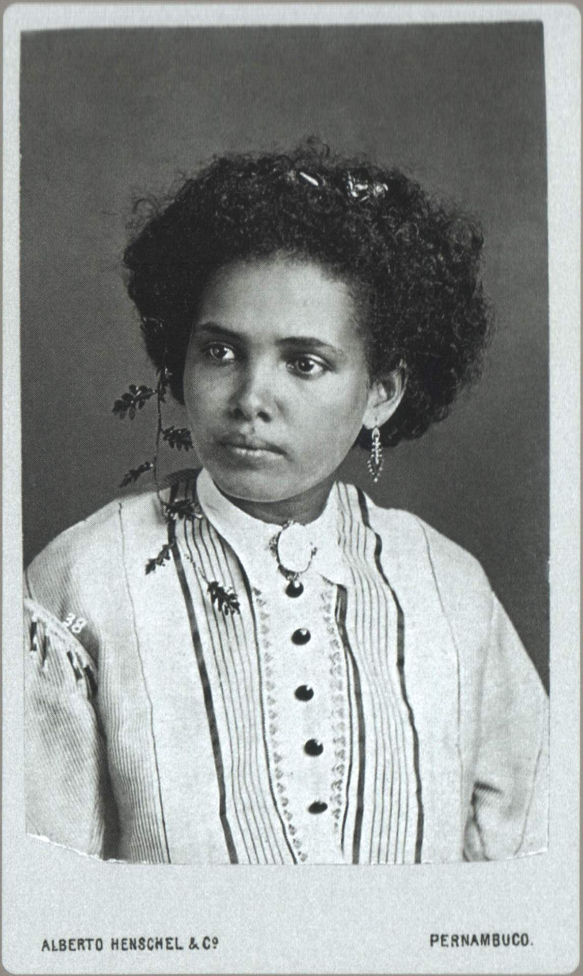 Mulatto girl from Salvador (19th century)